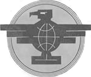 Emblem of the 457th Bombardment Squadron (World War II)